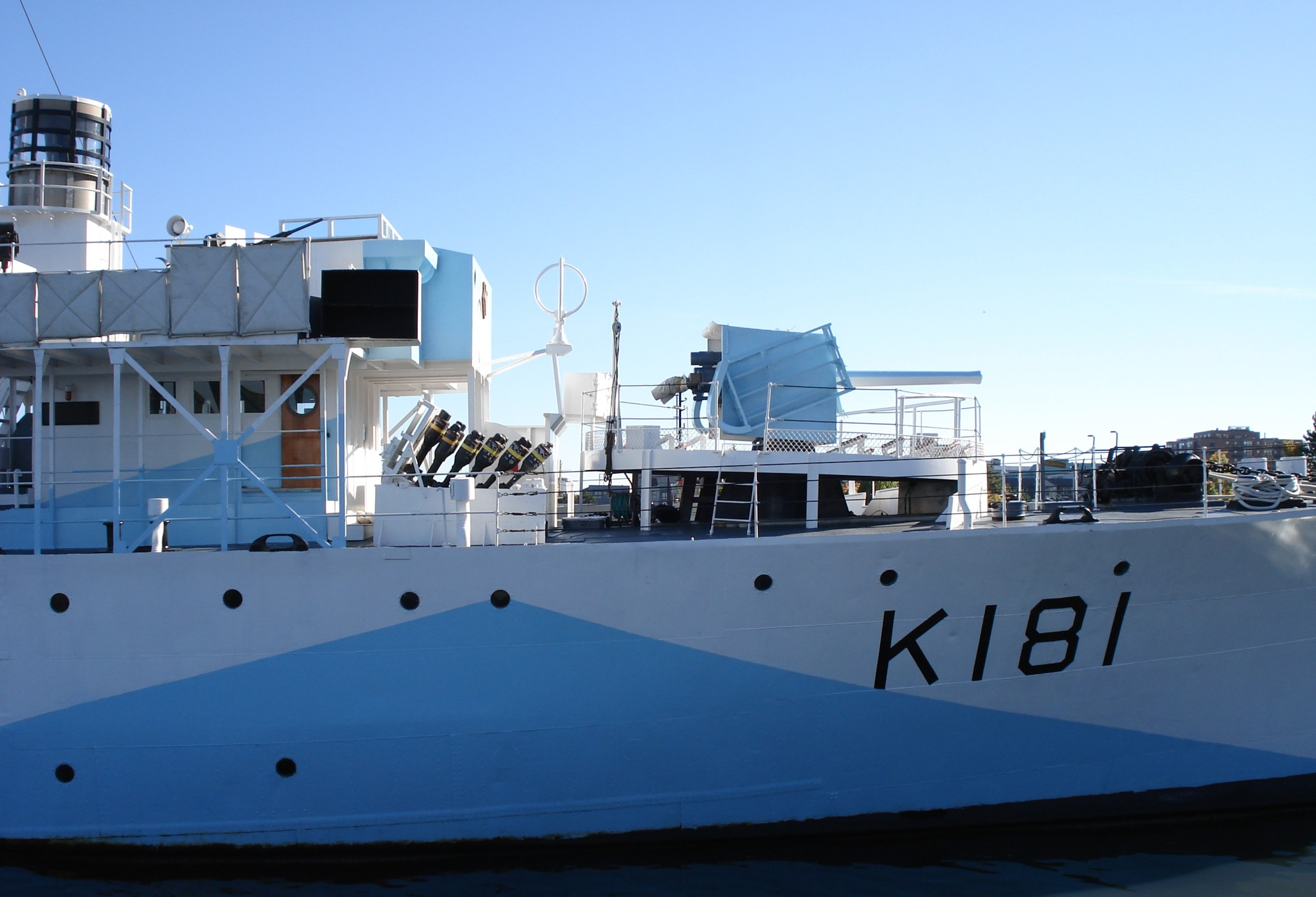 HMCS Sackville, Halifax Harbour Picture taken October 9, 2006 by Bryson109 (myself). Picture showing four-inch deck gun and Hedgehog anti-submarine weapon. This weapon is on permament loan to the Maritime Museum of the Atlantic from the Canadian War Museum[1]. Licensing This work has been released into the public domain by its author, Bryson109 at English Wikipedia. This applies worldwide. In some countries this may not be legally possible; if so: Bryson109 grants anyone the right to use this work for any purpose, without any conditions, unless such conditions are required by law. Original upload log The original description page was here. All following user names refer to en.wikipedia. 2006-10-10 01:23 Bryson109 2000×1365×??? (339278 bytes) HMCS Sackville, Halifax Harbour Picture taken October 9, 2006 by User:Bryson109|Bryson109 . Picture showing four-inch deck gun and Hedgehog anti-submarine weapon. Sackville, HMCS 3 Sackville, HMCS 3 Category:Images of ships